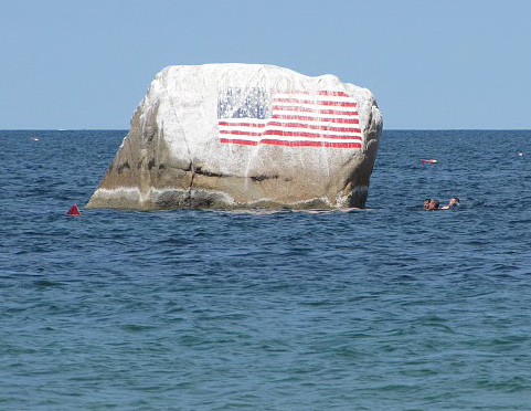 Flag Rock off Whitehorse Beach, Manomet, Massachusetts